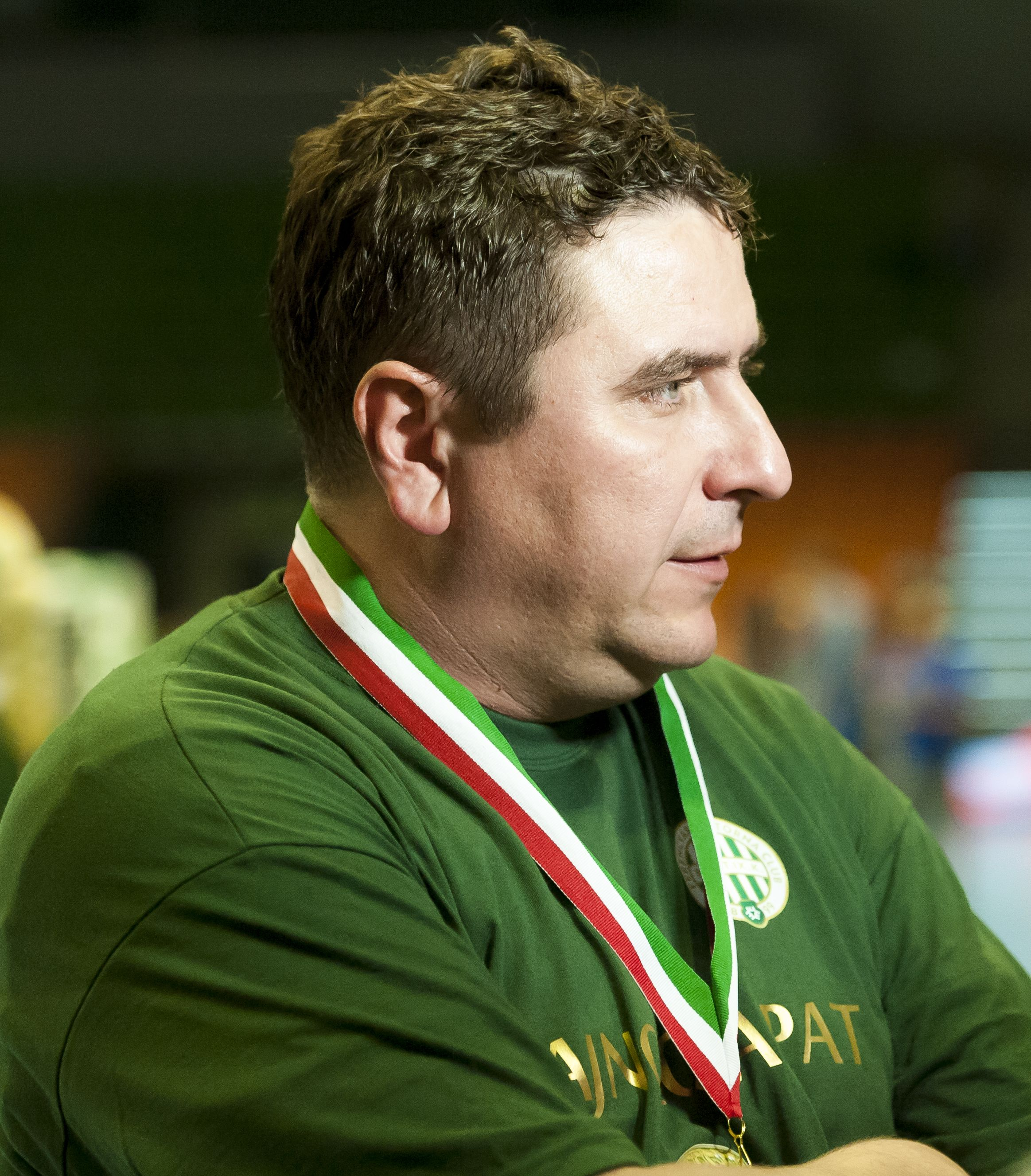 Győr-FTC Hungarian Handball Championship final, 2015. May 14.